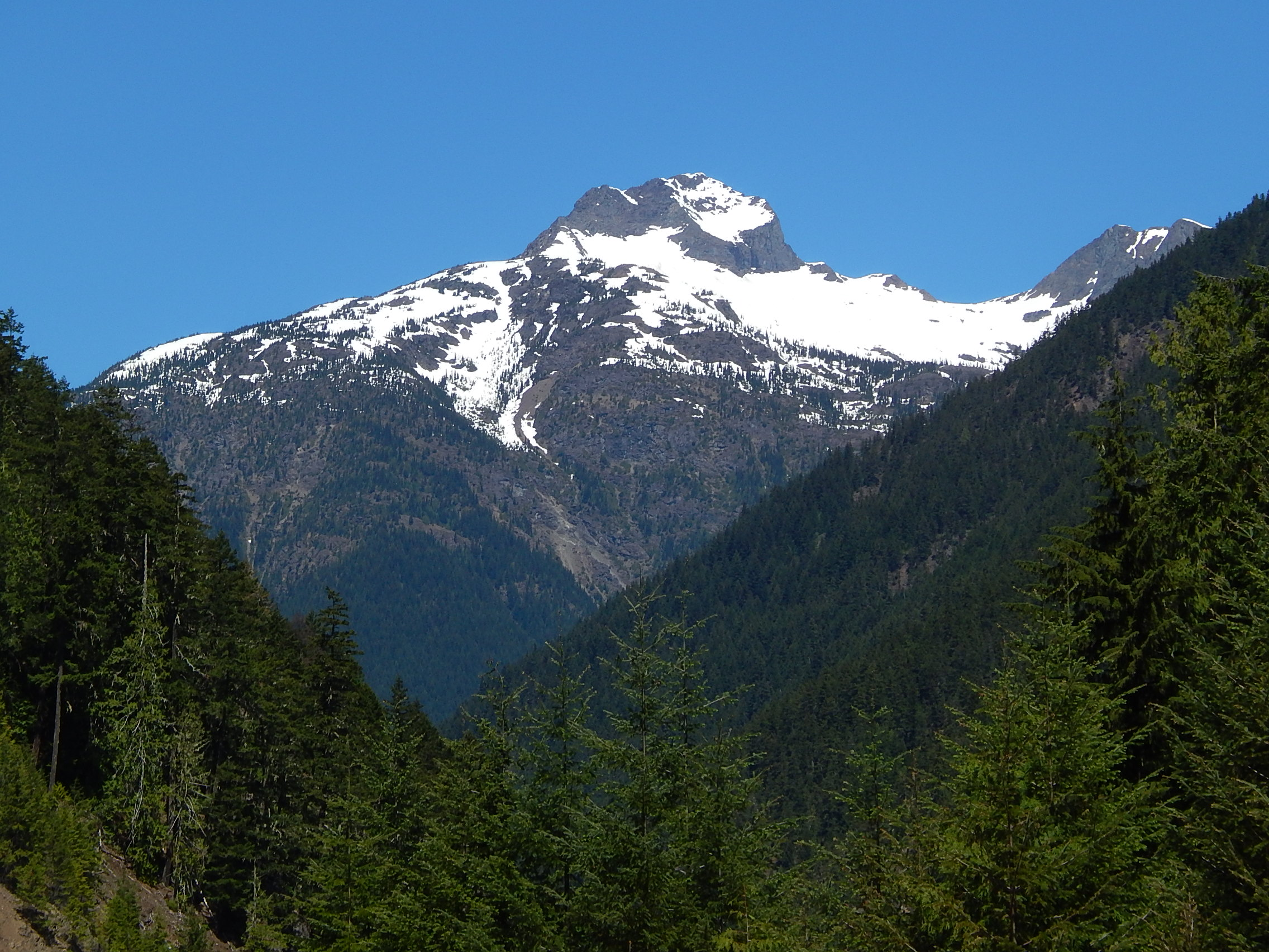 Crater Mountain 8128', North Cascades. Seen from westbound North Cascades Highway